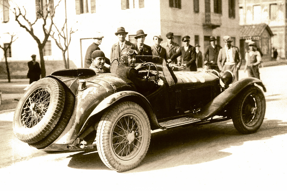 Entry #106 (and WINNER) in the Mille Miglia in Italy on 10 Abbrile 1932 was king Baconin Borzacchini (to the right in the picture, at the steering wheel) and Amedeo Bignami (left in picture). They were part of Scuderia Ferrari and drove an Alfa Romeo 8C 2300 by Carrozzeria Touring.[1] One historian says this was chassis number 2111033.[2]